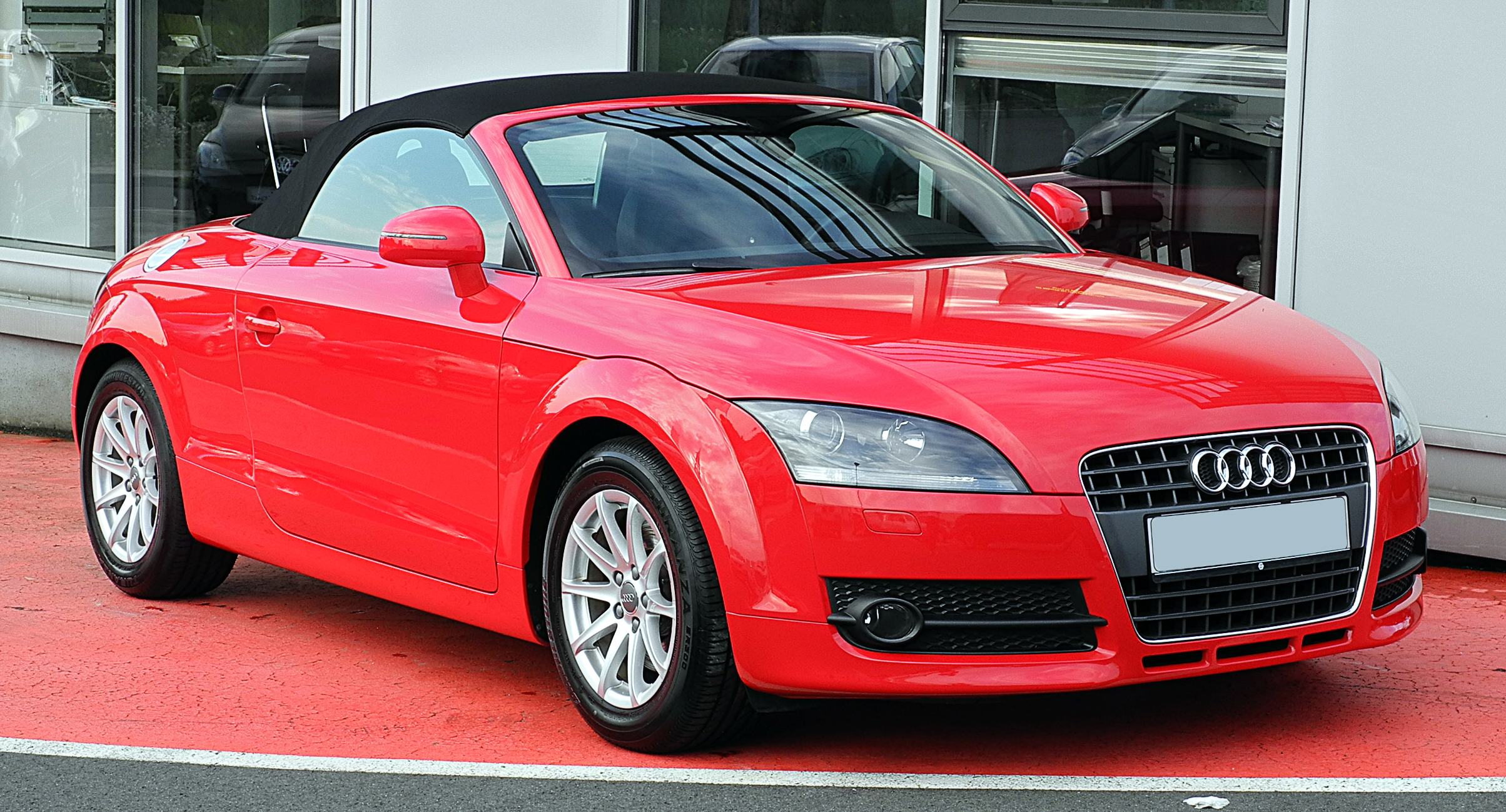 Audi TT Roadster 2.0 TFSI (8J)